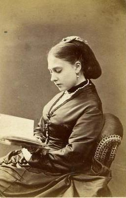 Princess Beatrice of the United Kingdom